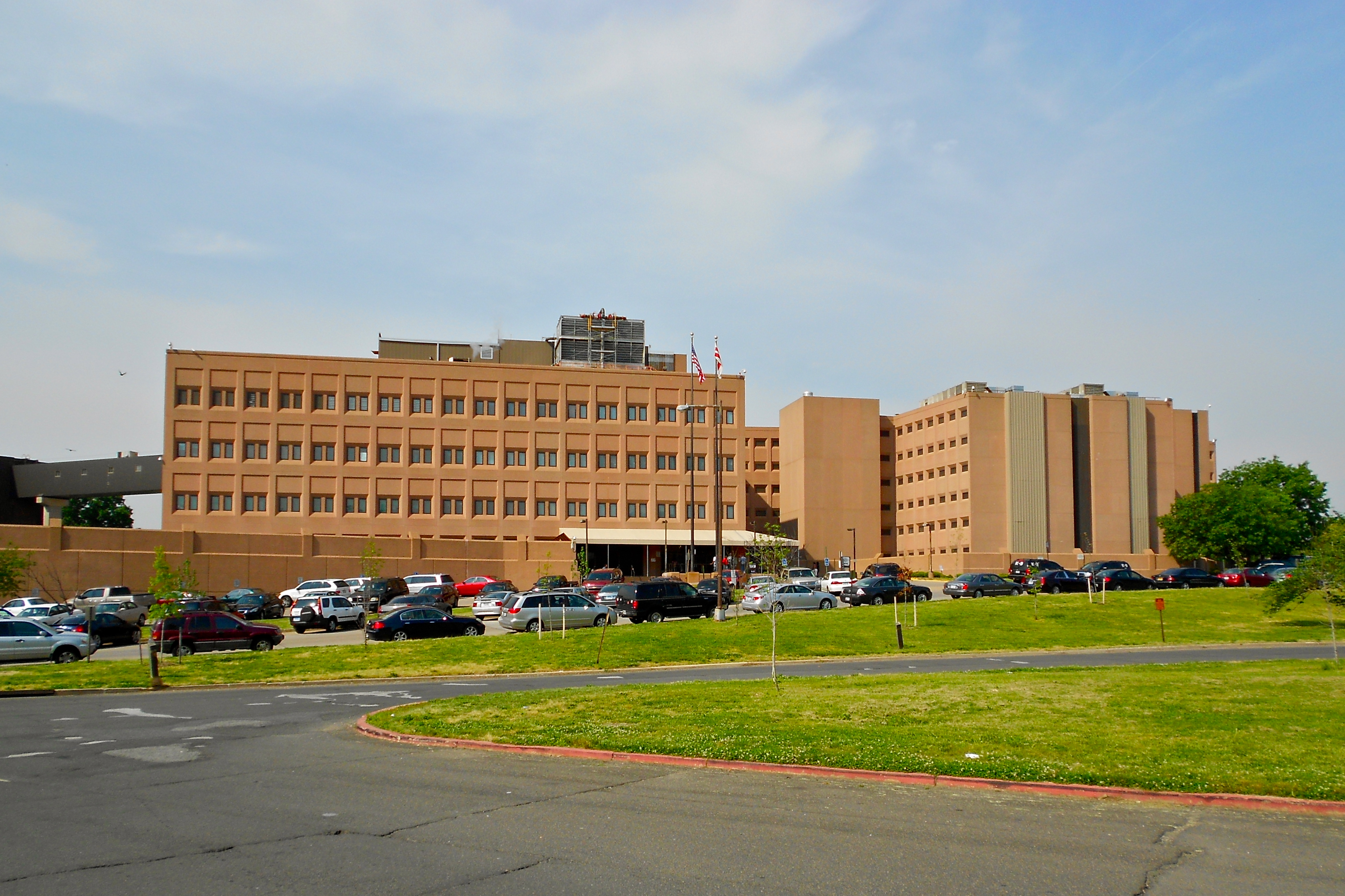 Prison building in SE Washington DC on Massachusetts Ave. This building replaced a Psychiatric Hospital that was on the NRHP.